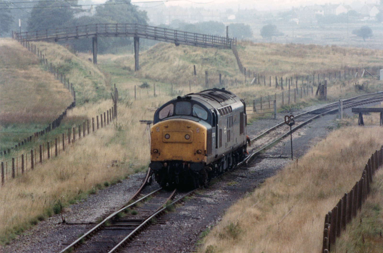 37230 at Onllwyn washery. The old trackbed on the left led to Craig-y-Nos and Brecon